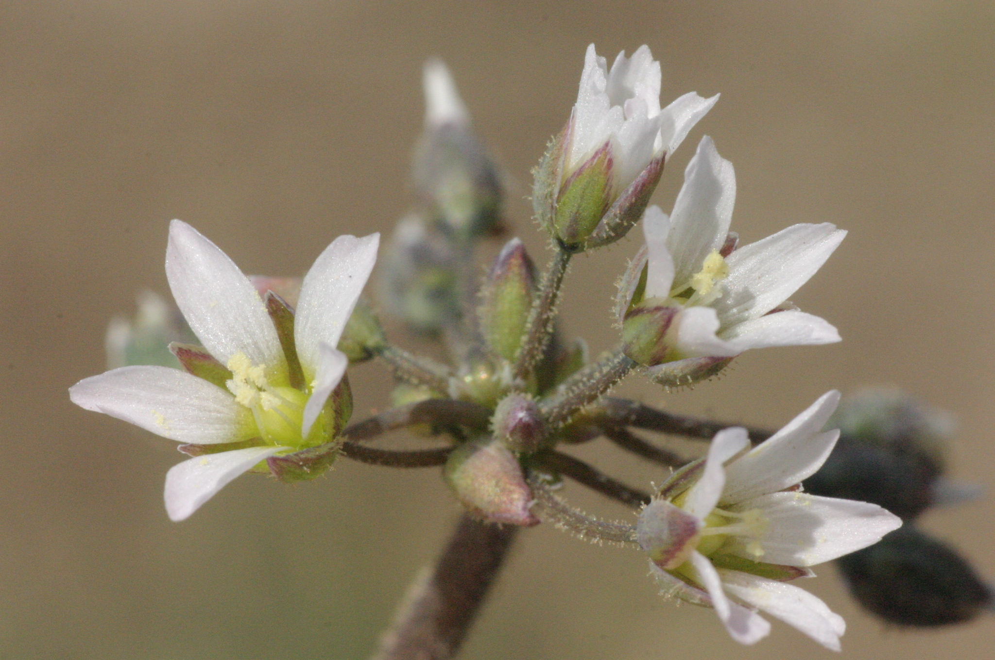 Holosteum umbellatum